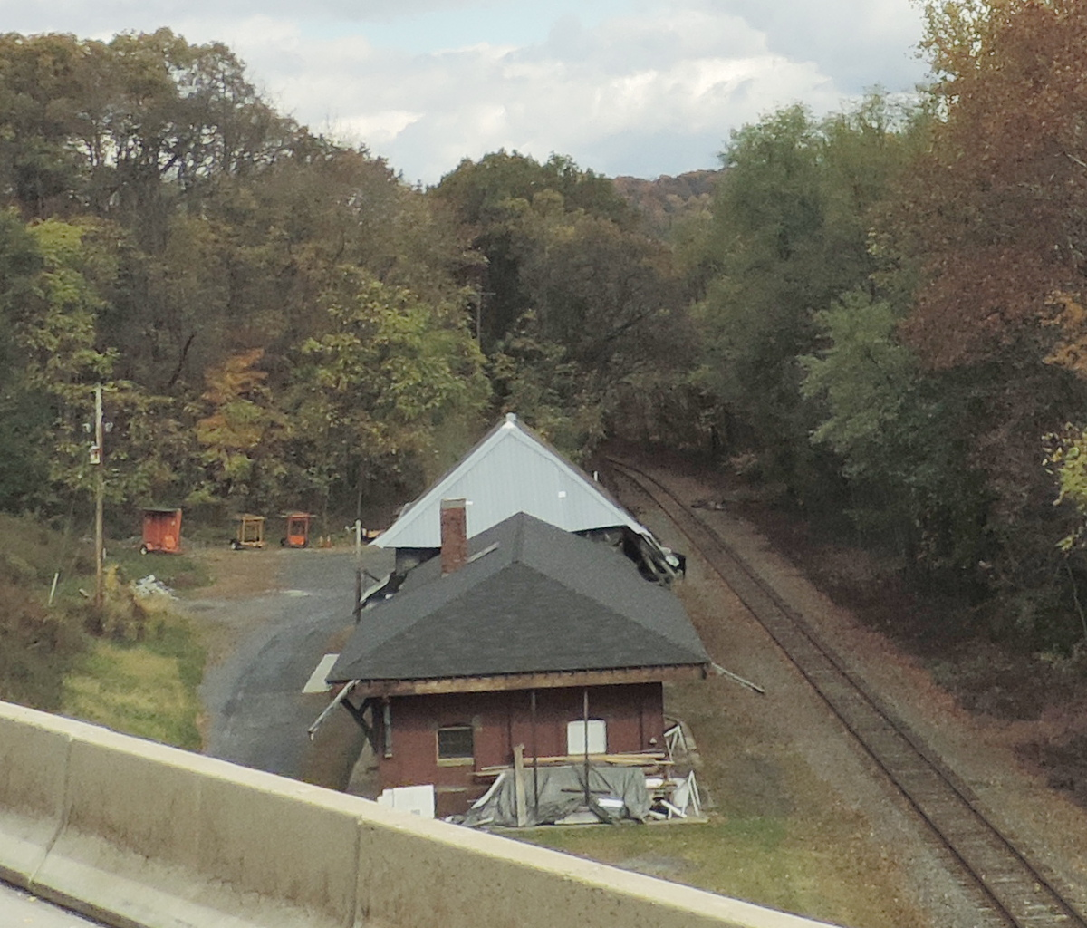 Looking north from a passing bus at Delaware Water Gap station on a cloudy day.